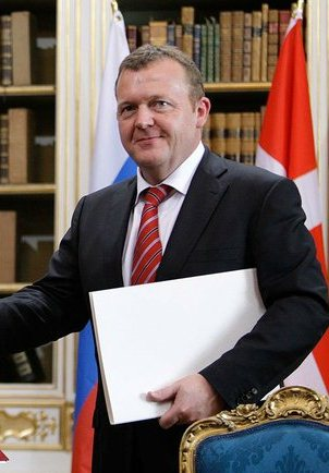 Danish politician Lars Løkke Rasmussen. (This image is a cropped version of File:Dmitry Medvedev in Denmark 28 April 2010-12.jpeg). Attribution